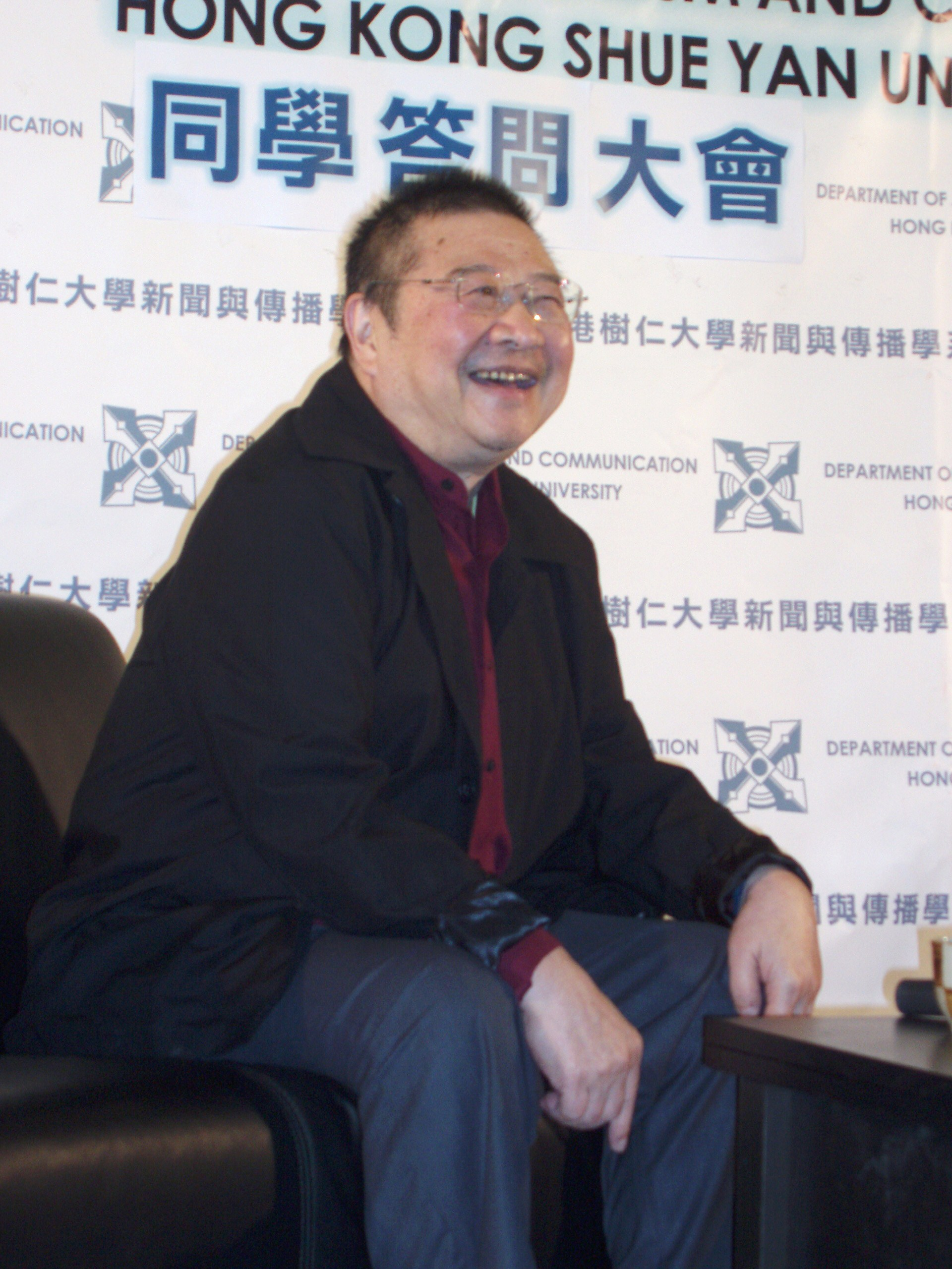 Mr NI Kuang at General Assembly of Journalism & Communication Department, Hong Kong Shue Yan University